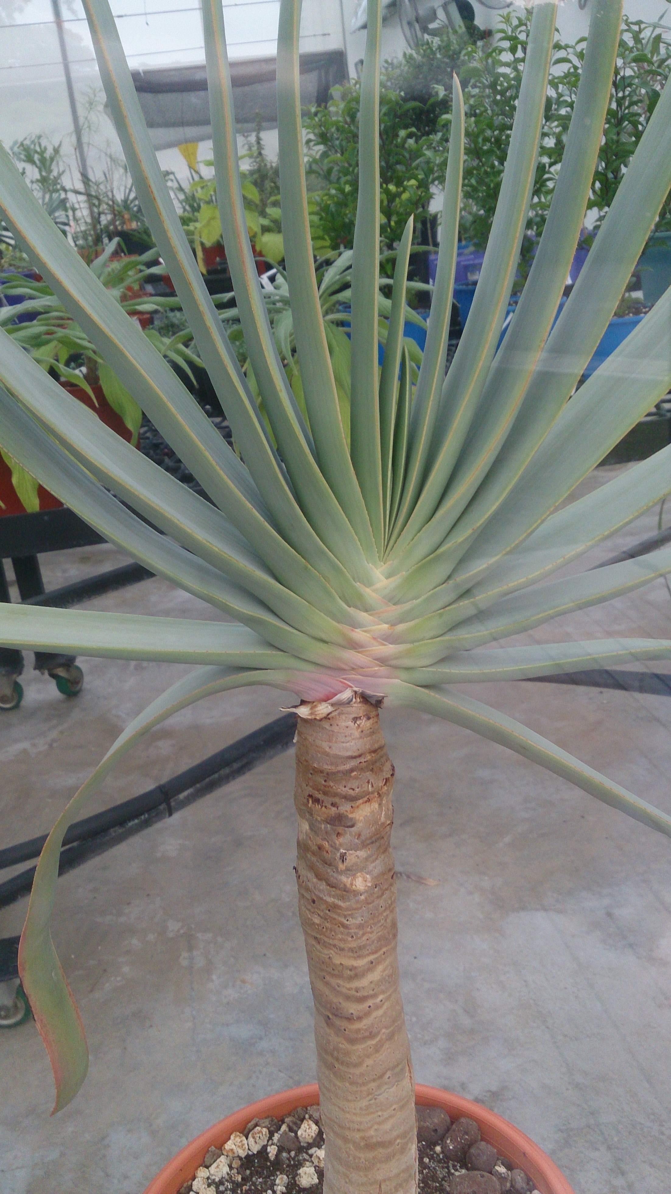 Aloe plicatilis. Common name: Fan Aloe.